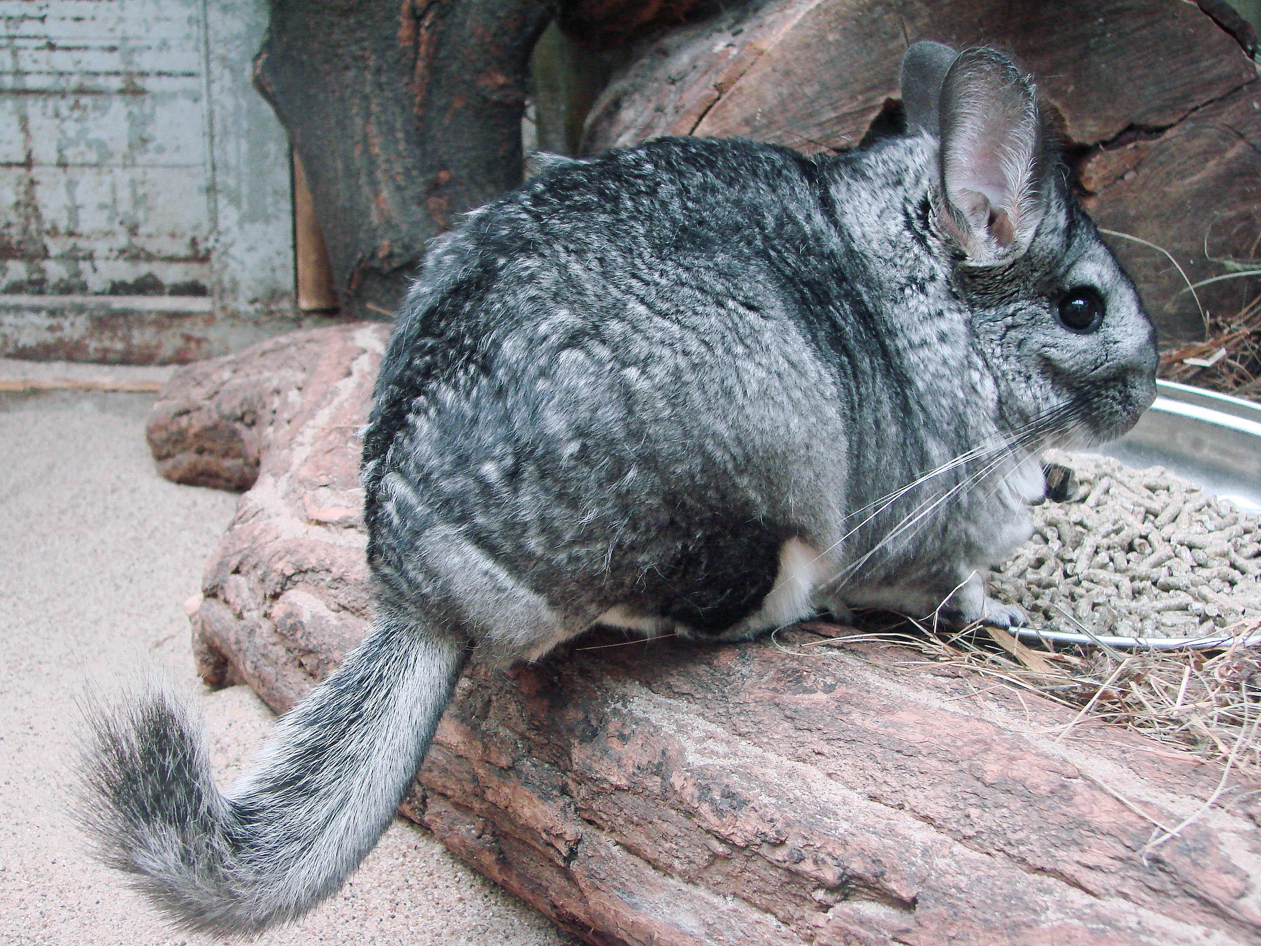 Picture taken in the zoo of Wrocław (Poland): Chinchilla lanigera (Molina, 1782)